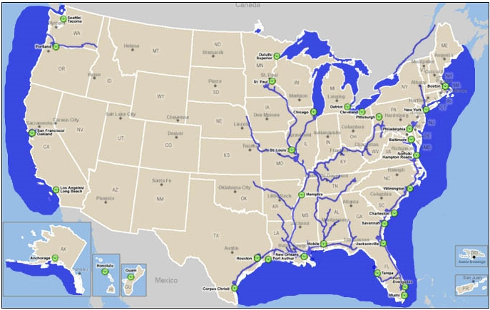 America's Marine Highways Map.